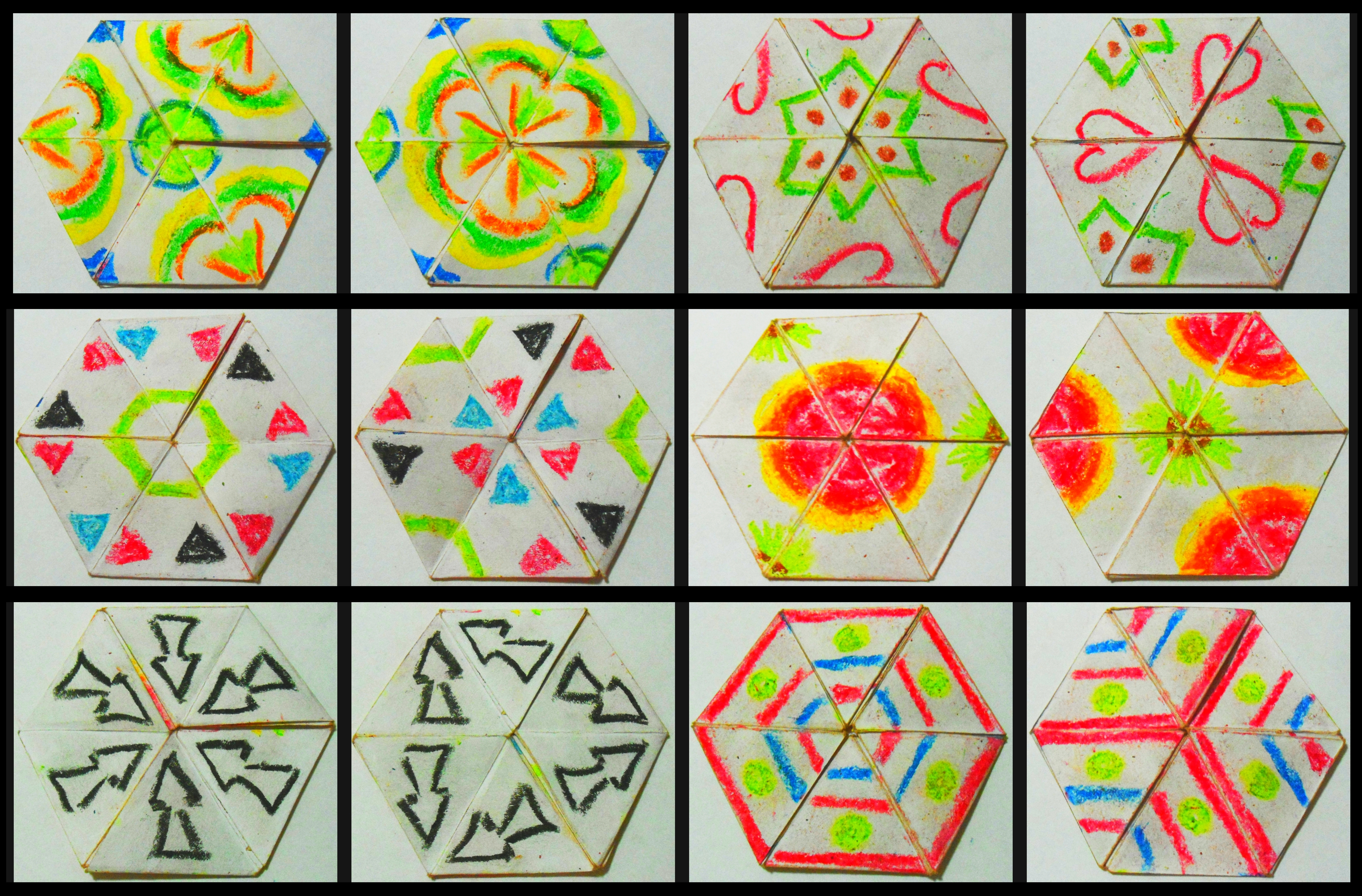 Hexahexaflexagon showing all sides